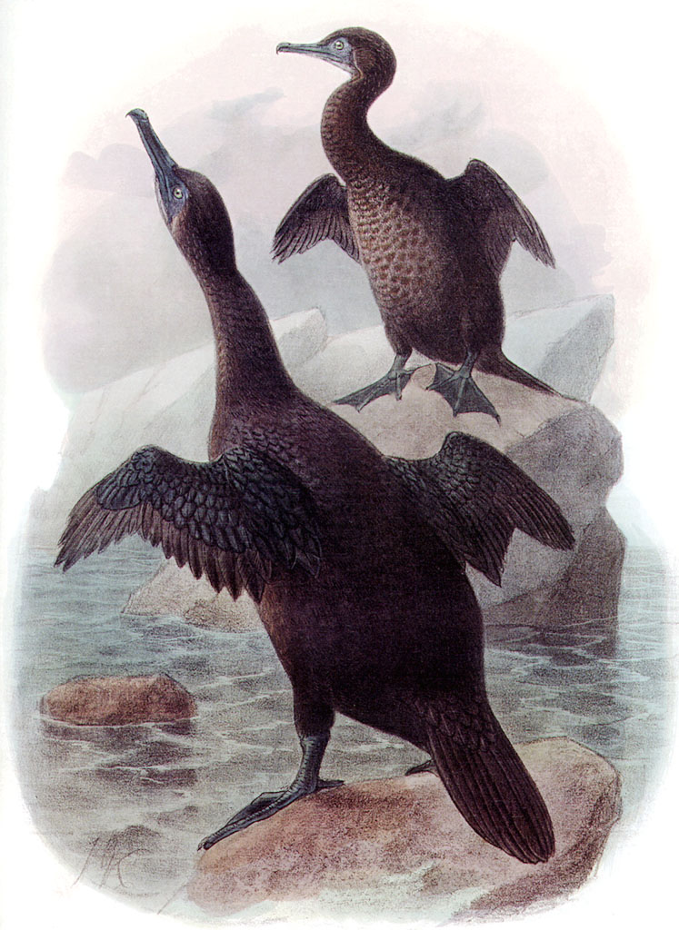 Galapagos Cormorant, ', hand-colored lithograph. (file name misspelled)